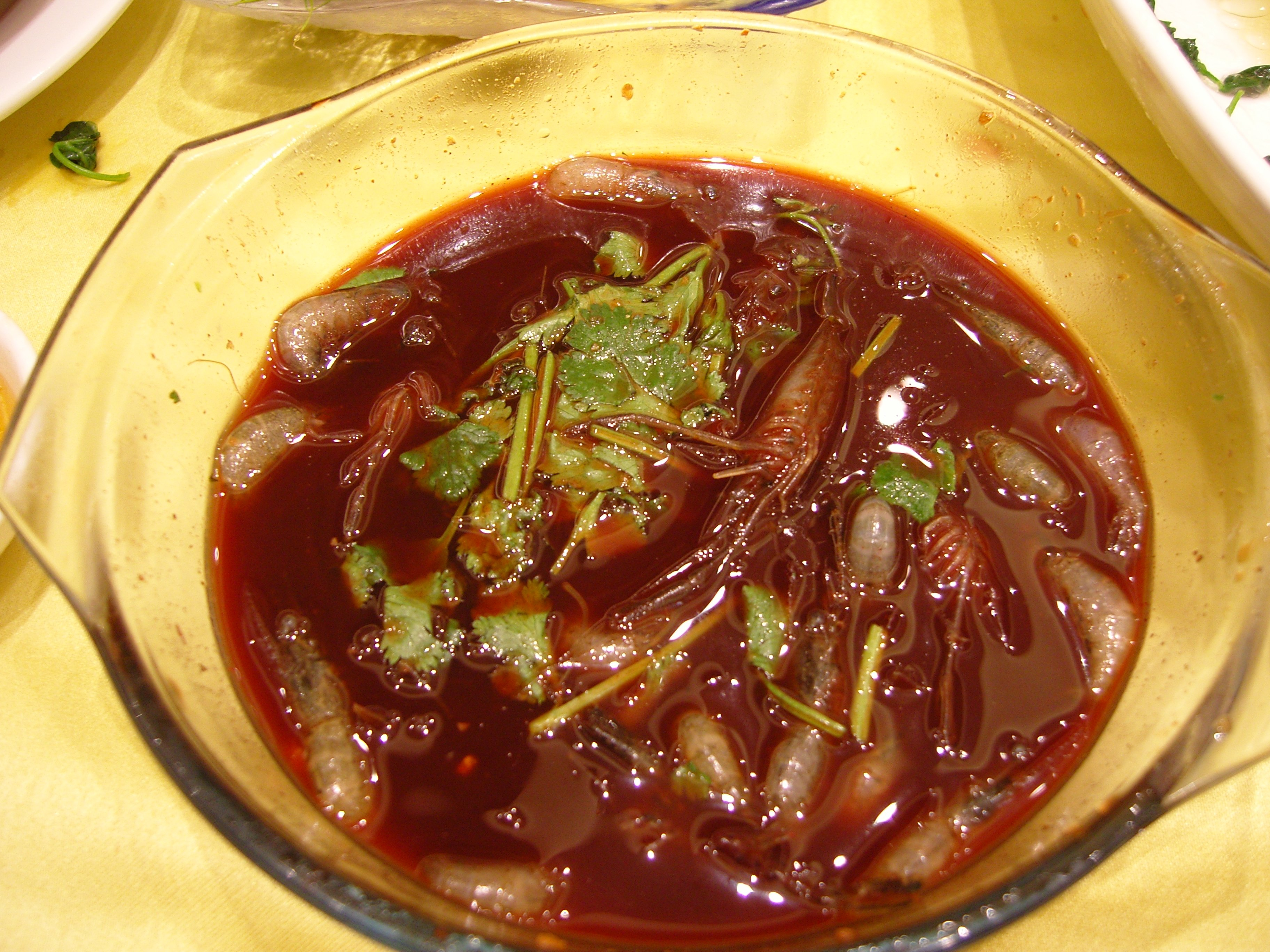 Drunken shrimp. These shrimp were alive, although drunk on their boozy marinade, when I ate them. They flicked around something awful and splashed all over the tablecloth. Changde Lu (near Xinzha Lu), Shanghai, China